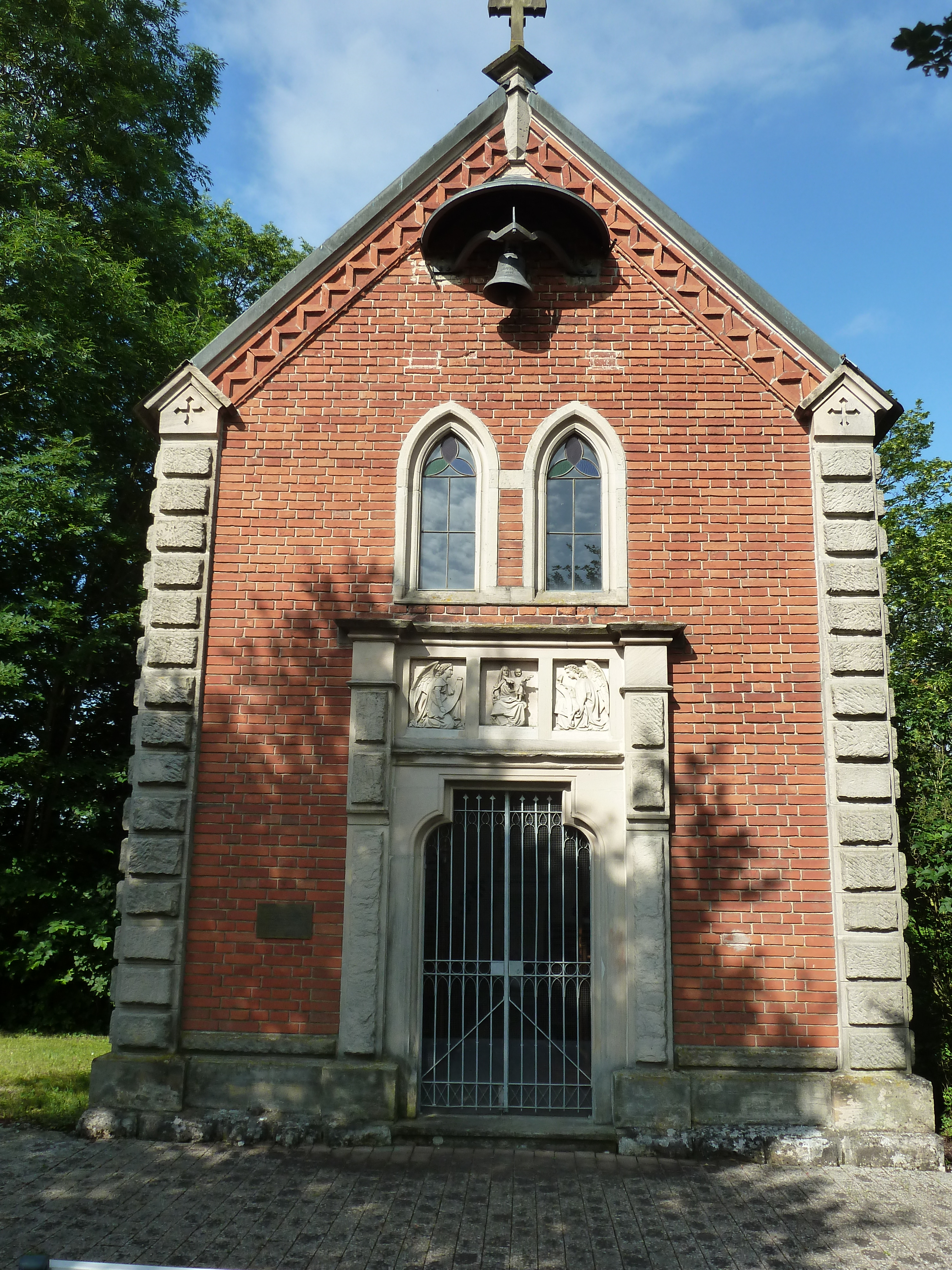 St Mary's Chapel near Rannungen